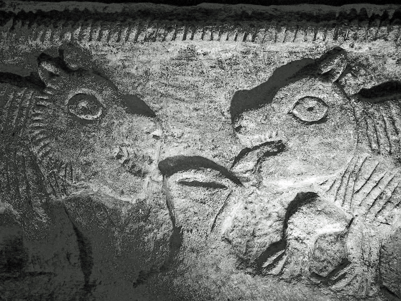 Two lions facing each other – A Greek mythological scene decoration on sarcophagus